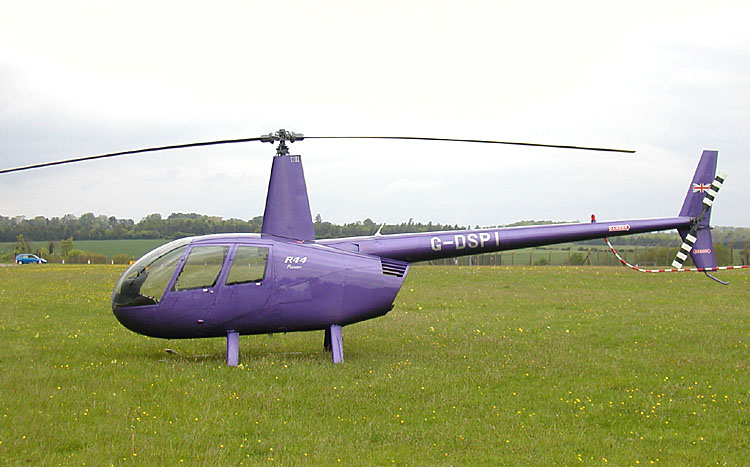 Robinson R44 helicopter, photographed at the Great Vintage Fly-in Weekend, Kemble, England, May 2003